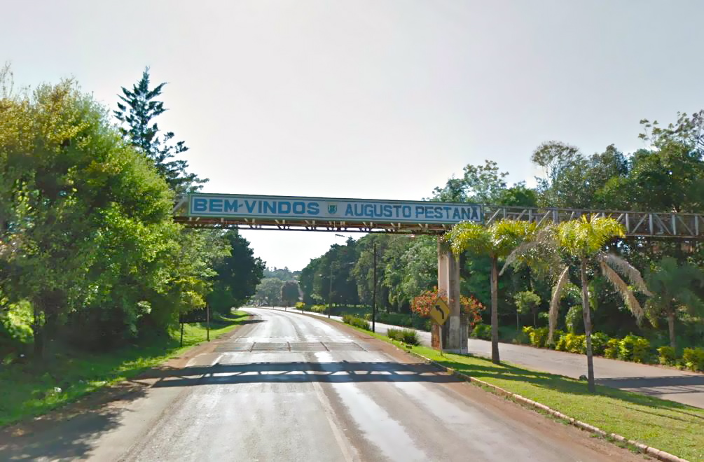 Pedestrian bridge over RS 522 Highway, Augusto Pestana (RS), Brazil.